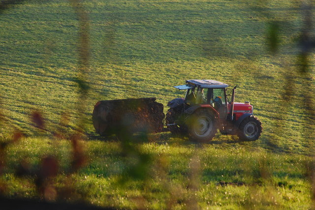 Farmer muck spreading